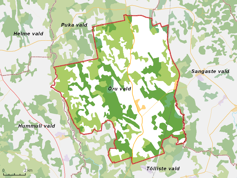 Map of municipality in Estonia